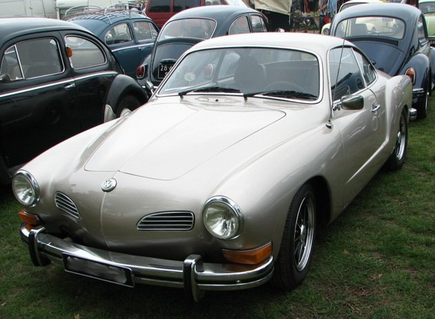 Picture of a Karmann Ghia